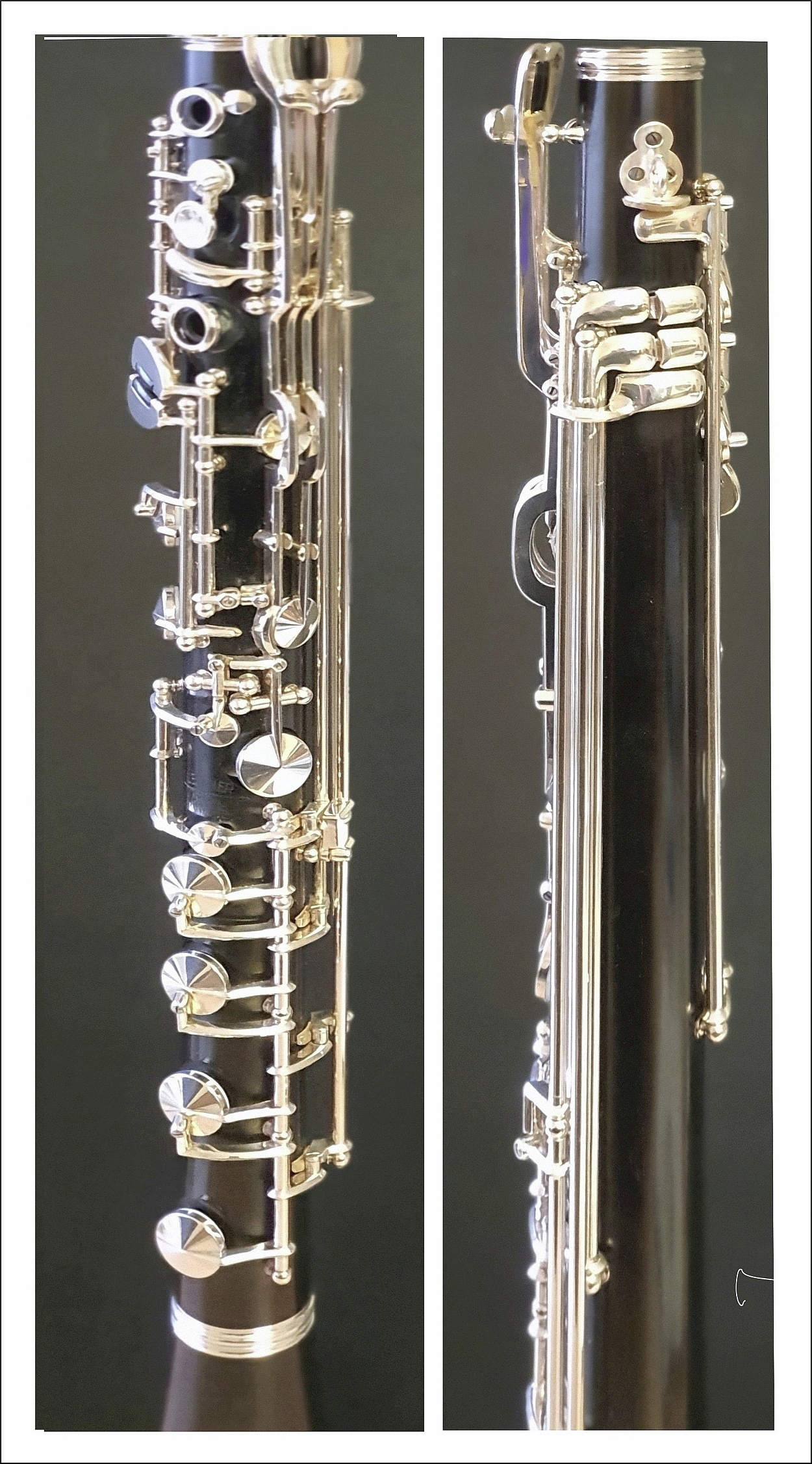 Basset Clarinet, lower joint, view from the side and from below